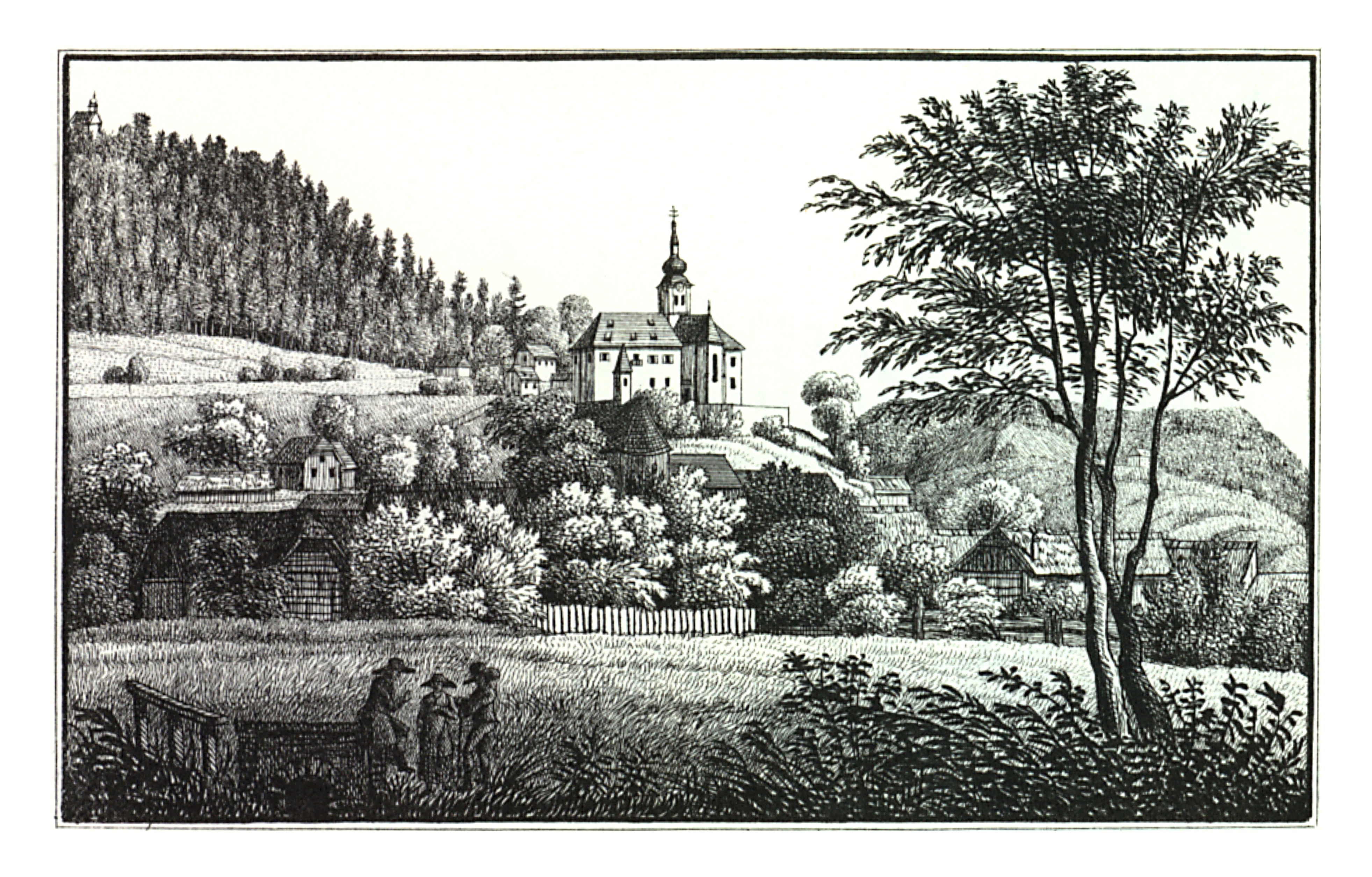 J. F. Kaiser - lithographirte Ansichten der Steyermärkischen Städte, Märkte und Schlösser, Graz 1824-1833 Joseph Franz Kaiser (1786–1859) Alternative names J. F. KaiserDescriptionAustrian printer and editorDate of birth/death 11 March 1786 19 September 1859Location of birth/death Graz (Styria) GrazAuthority control : Q1499963 VIAF: 30629353 ISNI: 0000 0000 3083 0153 LCCN: n87141671 GND: 129880159 NLP: A24960305 WorldCat creator QS:P170,Q1499963 . Scanprojekt Community Projektbudget 2012 This scan or this PDF-file was created within the GLAM-project Bookscanning, supported by Wikimedia Germany and Wikimedia Austria as a part of the community-project to capture books, documents and pictures which are not eligible to copyright or for which the copyright has expired. This document describes or depicts an object which is located in Austria today. Send requests for uncompressed scans to Hubertl. This work is in the public domain in its country of origin and other countries and areas where the copyright term is the author's life plus 100 years or less. You must also include a United States public domain tag to indicate why this work is in the public domain in the United States. This file has been identified as being free of known restrictions under copyright law, including all related and neighboring rights.